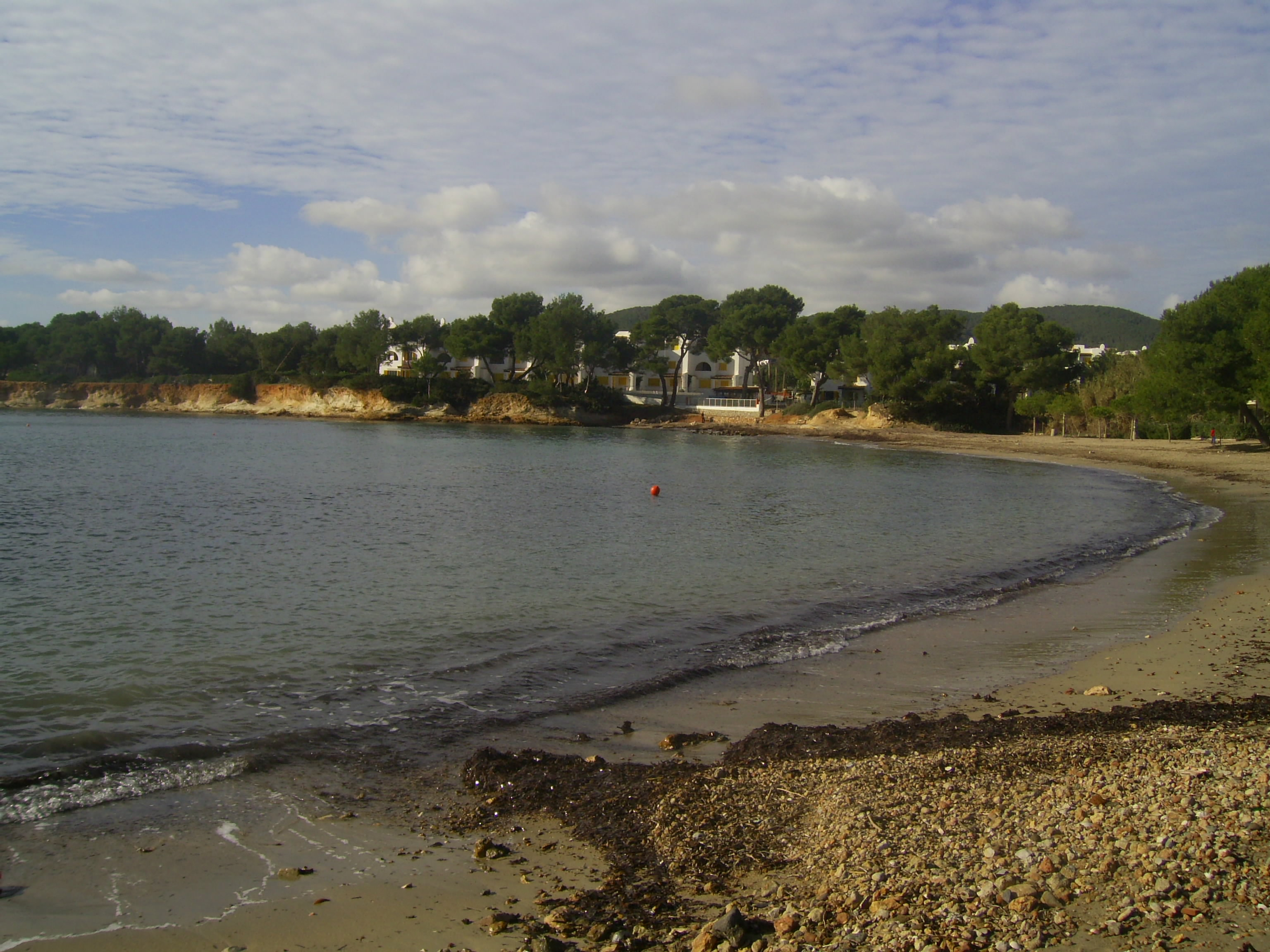 Niu Blau